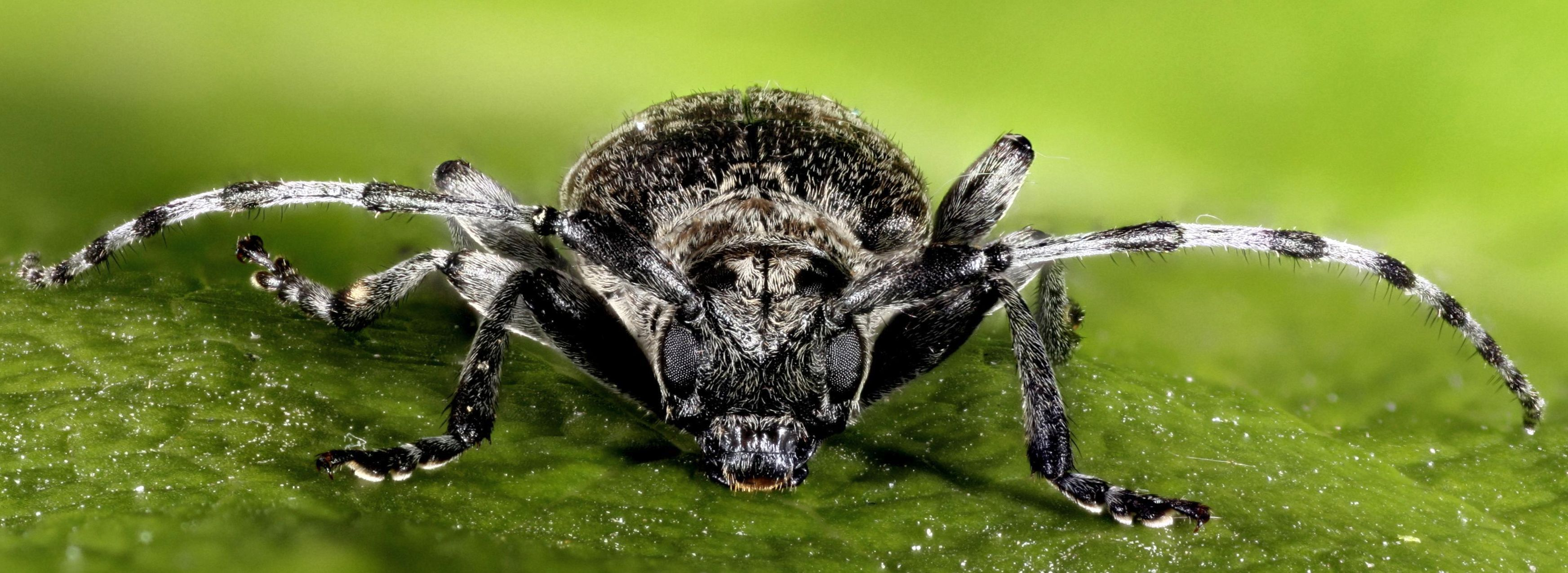 Male Longhorn beetle Oplosia cinerea